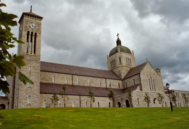 Church of the Sacred Heart, Carndonagh, Co. Donegal.